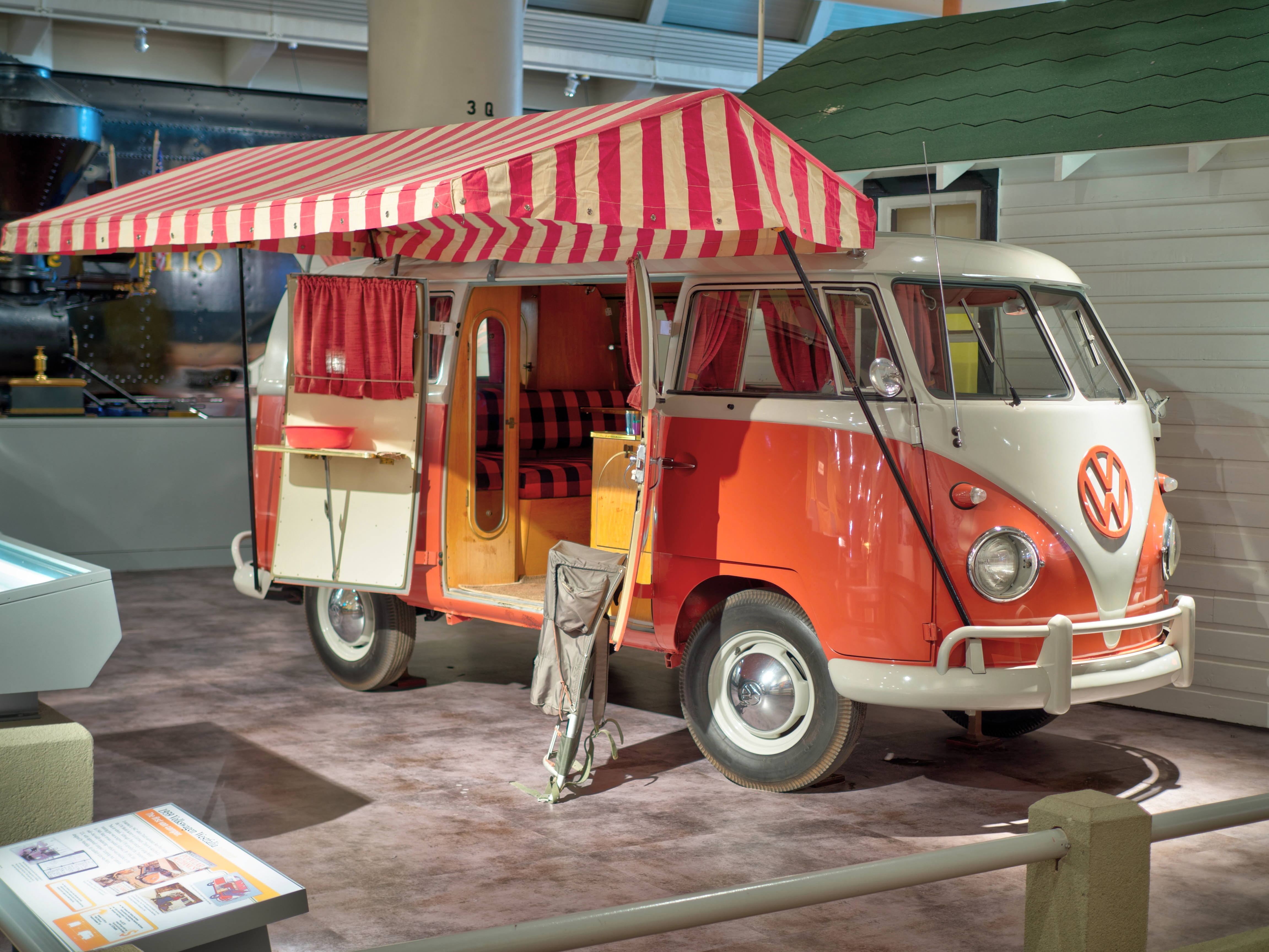 Volkswagen Type 2 at The Henry Ford - July 2017